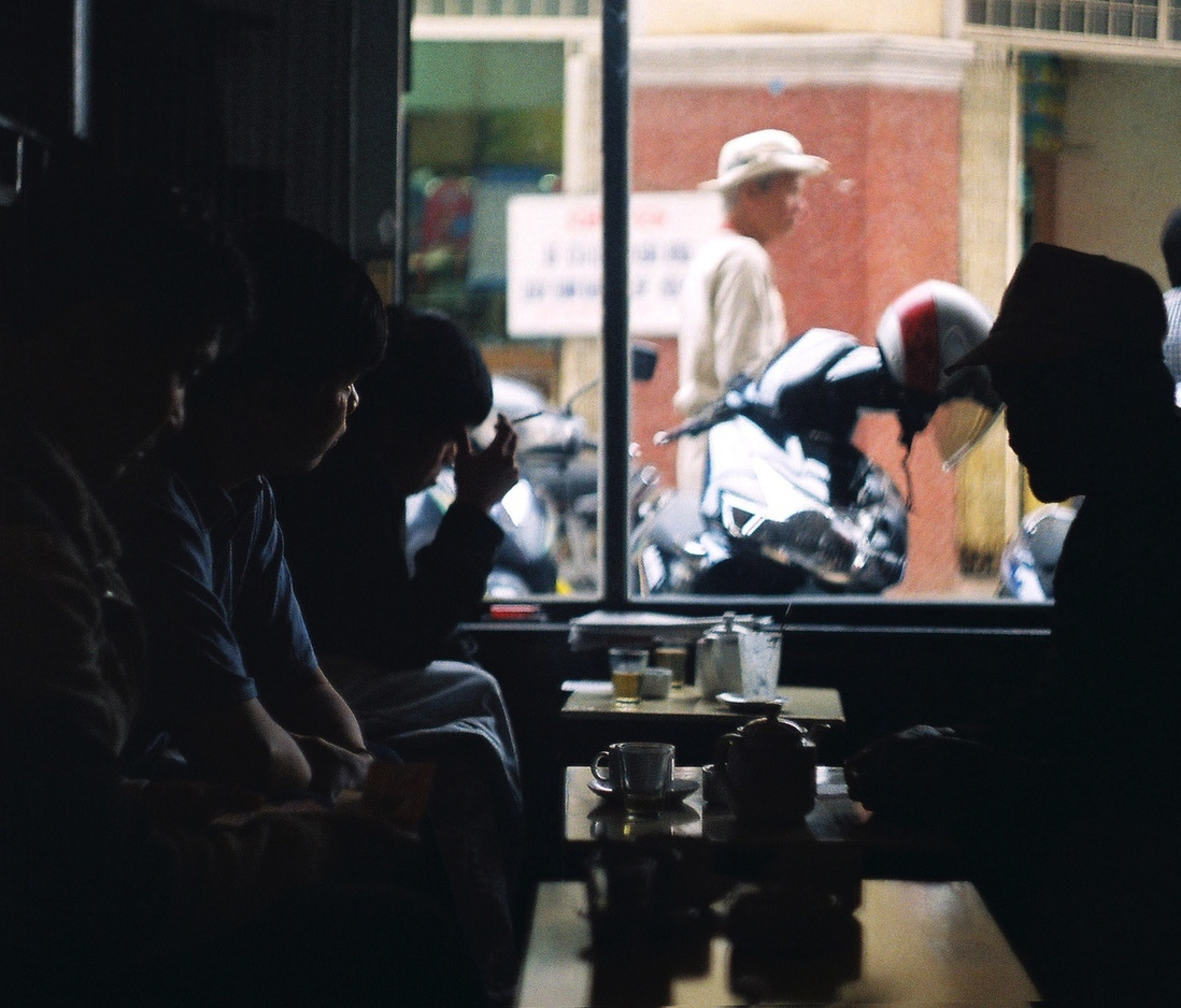 Cafe Tùng, Da Lat, Vietnam